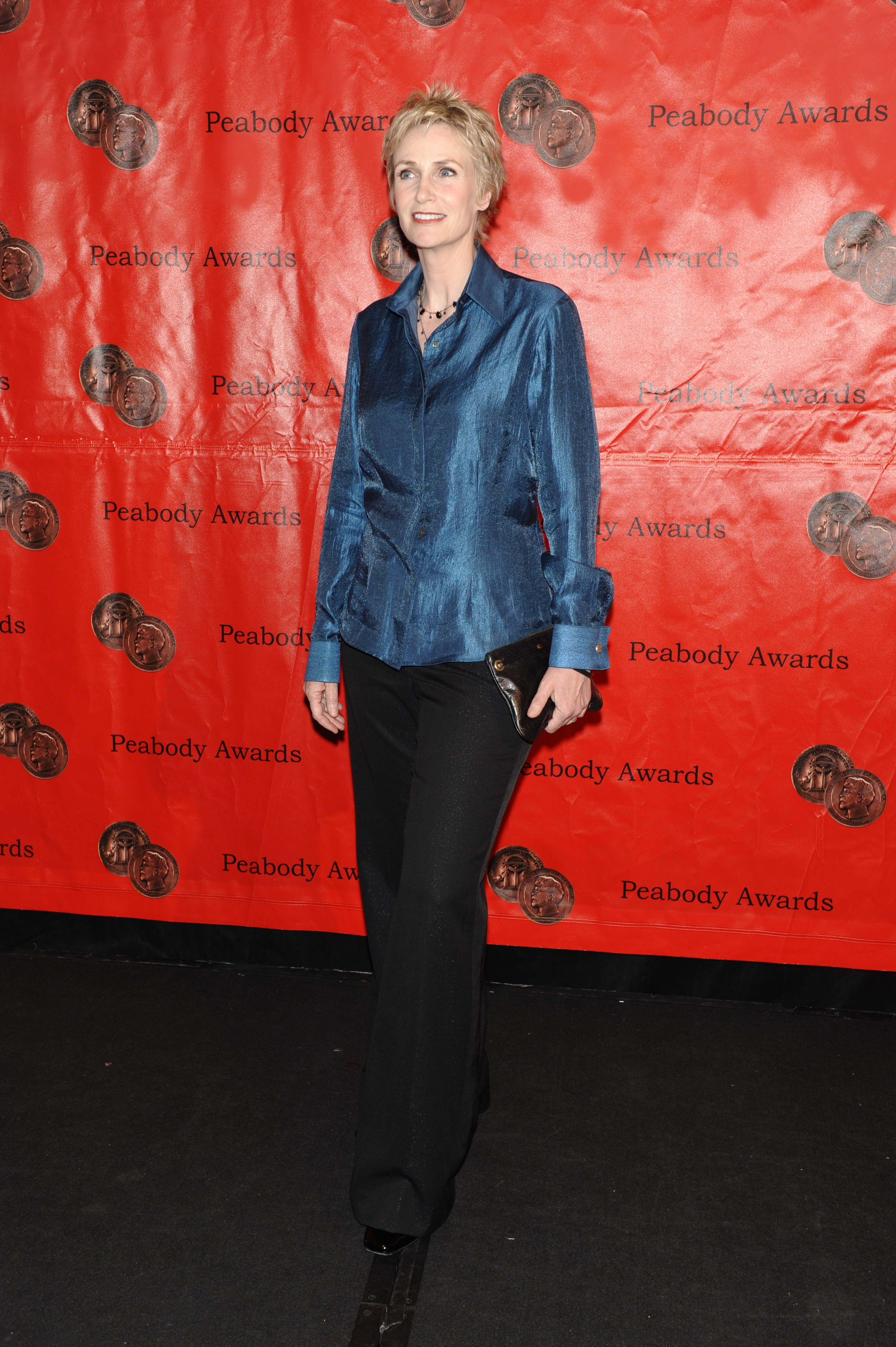 Jane Lynch for Glee 69th Annual Peabody Awards Luncheon Waldorf=Astoria Hotel New York, NY USA May 17, 2010